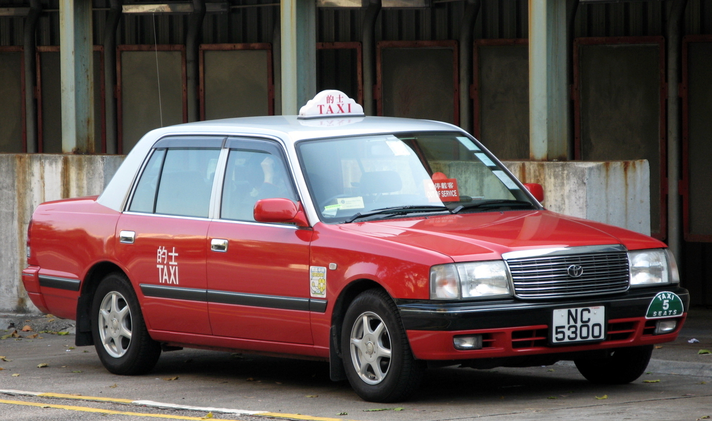 HK Toyota Comfort 2008 Front View